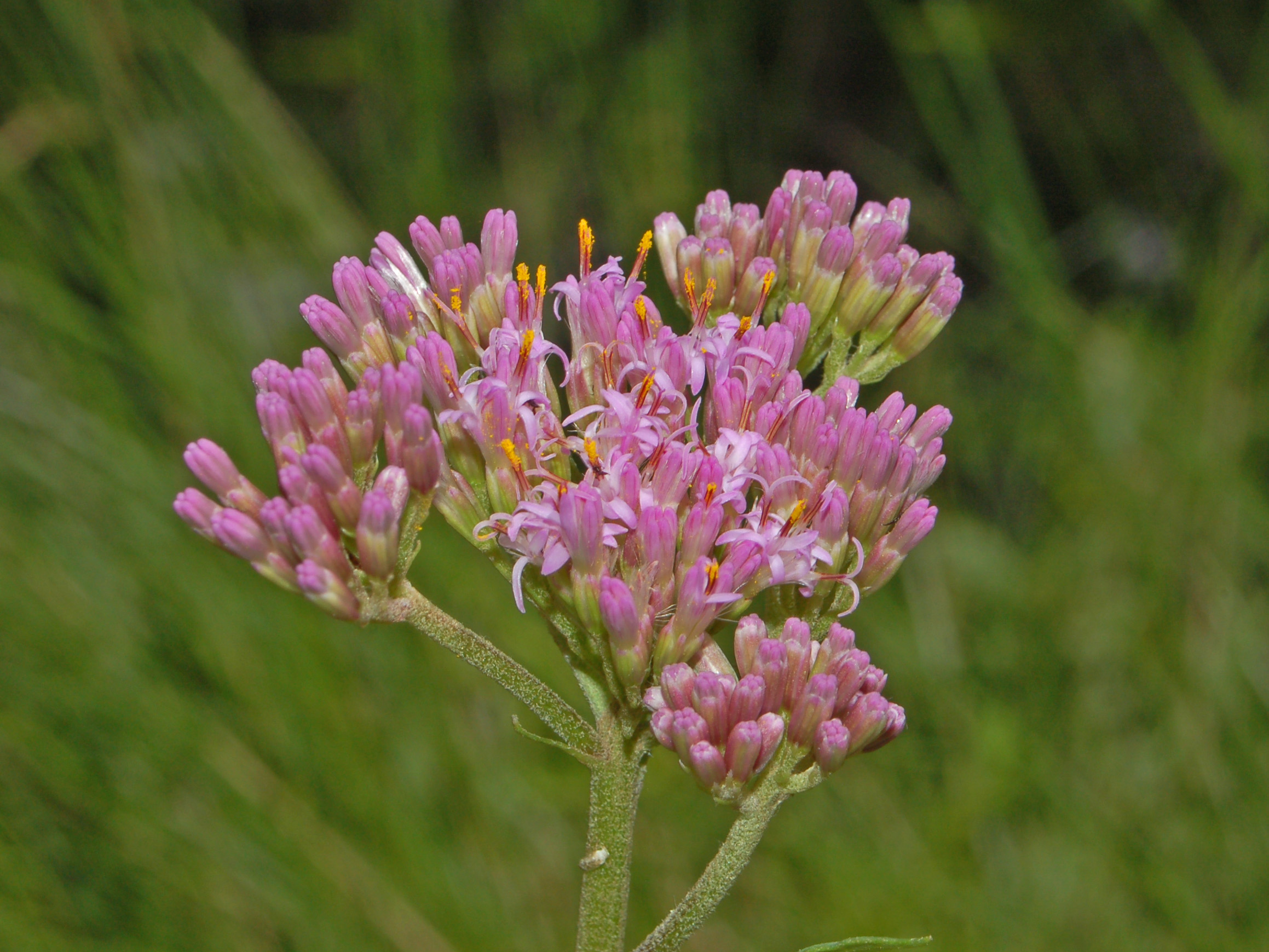 Adenostyles alpina - Valle Argentera, Torino, Italy